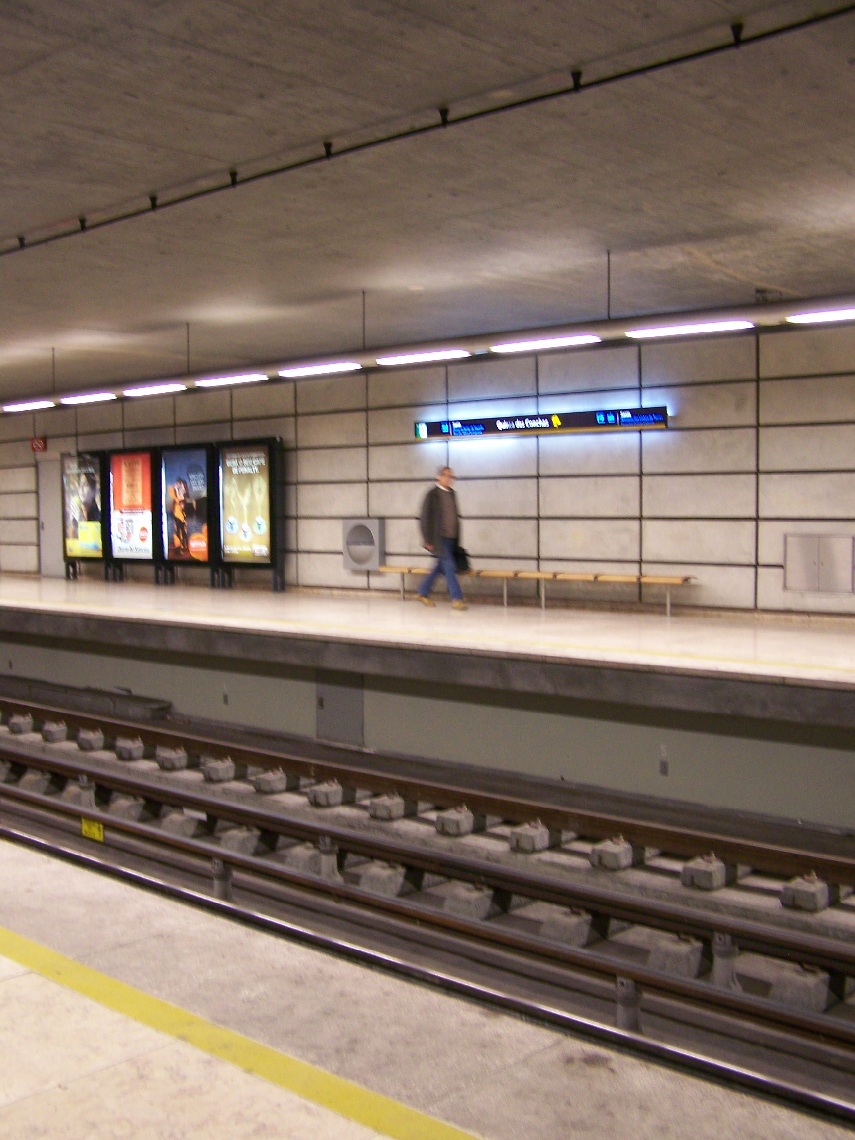 platforms of the underground station Quinta das Conchas (yellow line) in Lisbon, Portugal